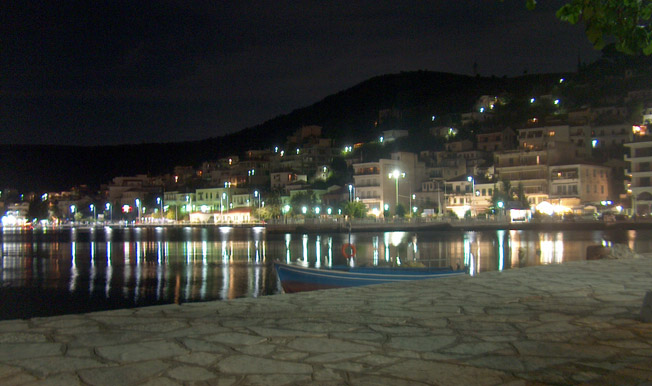 View on the small city of Amfilochia in Greece seen from Ambracian Gulf.